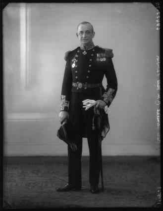 Portrait of Admiral Percival Hall-Thompson